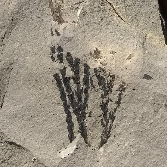 Sequoidendron chaneyi from Clark, Nevada